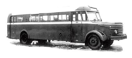 Vanaja VAL, the first bus made by Vanajan Autotehdas. The coachwork is made by Helko.